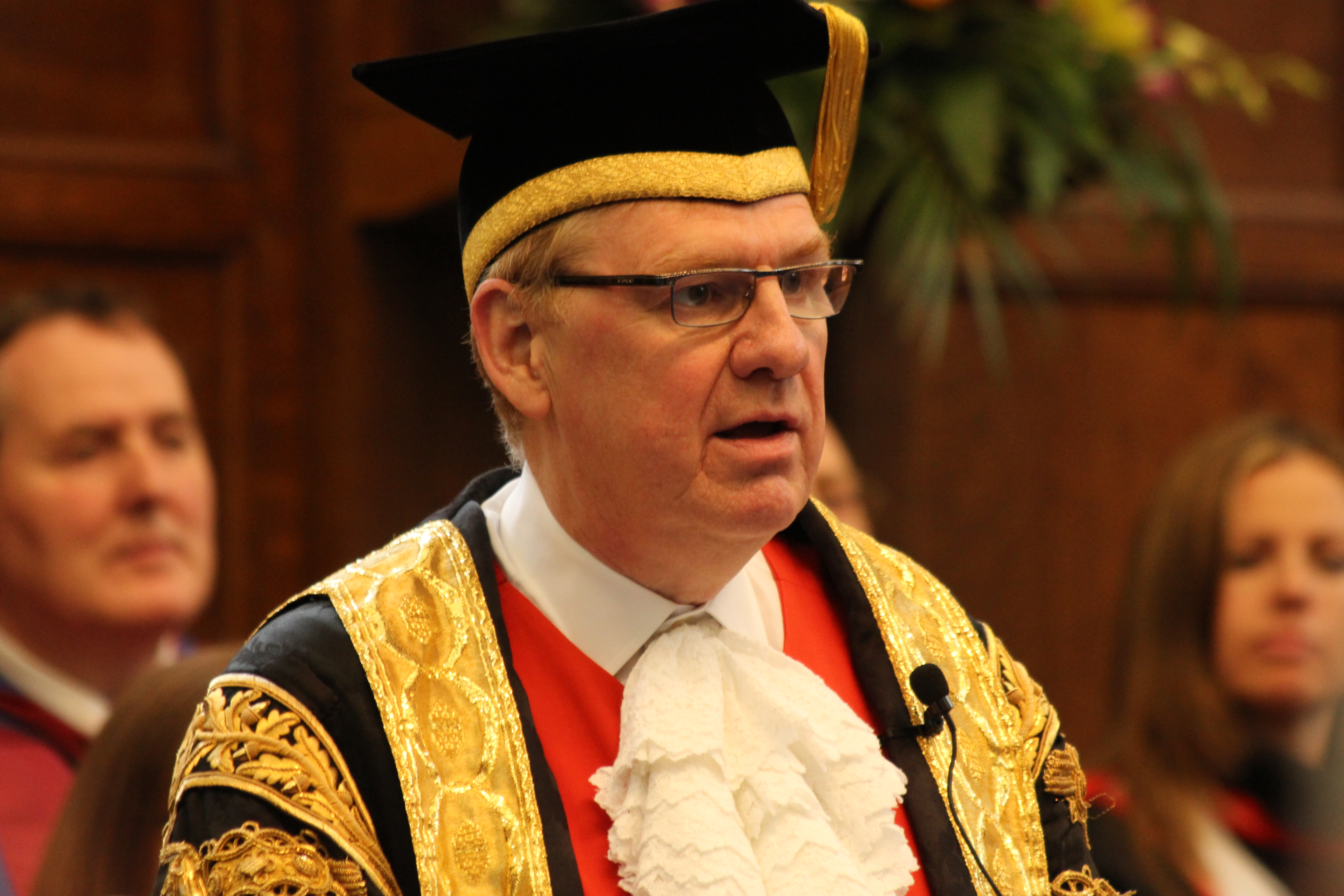 Sir Liam Donaldson, Chancellor of Newcastle University